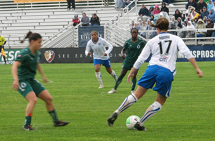 Kasey Moore of the (WPS) Womens Professional Soccer Club, Boston Breakers.